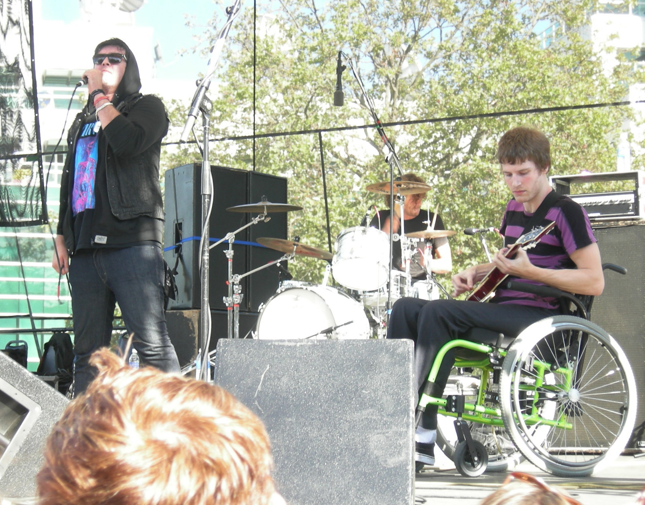 Seattle power pop band The Lashes perform at Bumbershoot, a music and arts festival held every Labor Day weekend at Seattle Center, Seattle, Washington, USA.